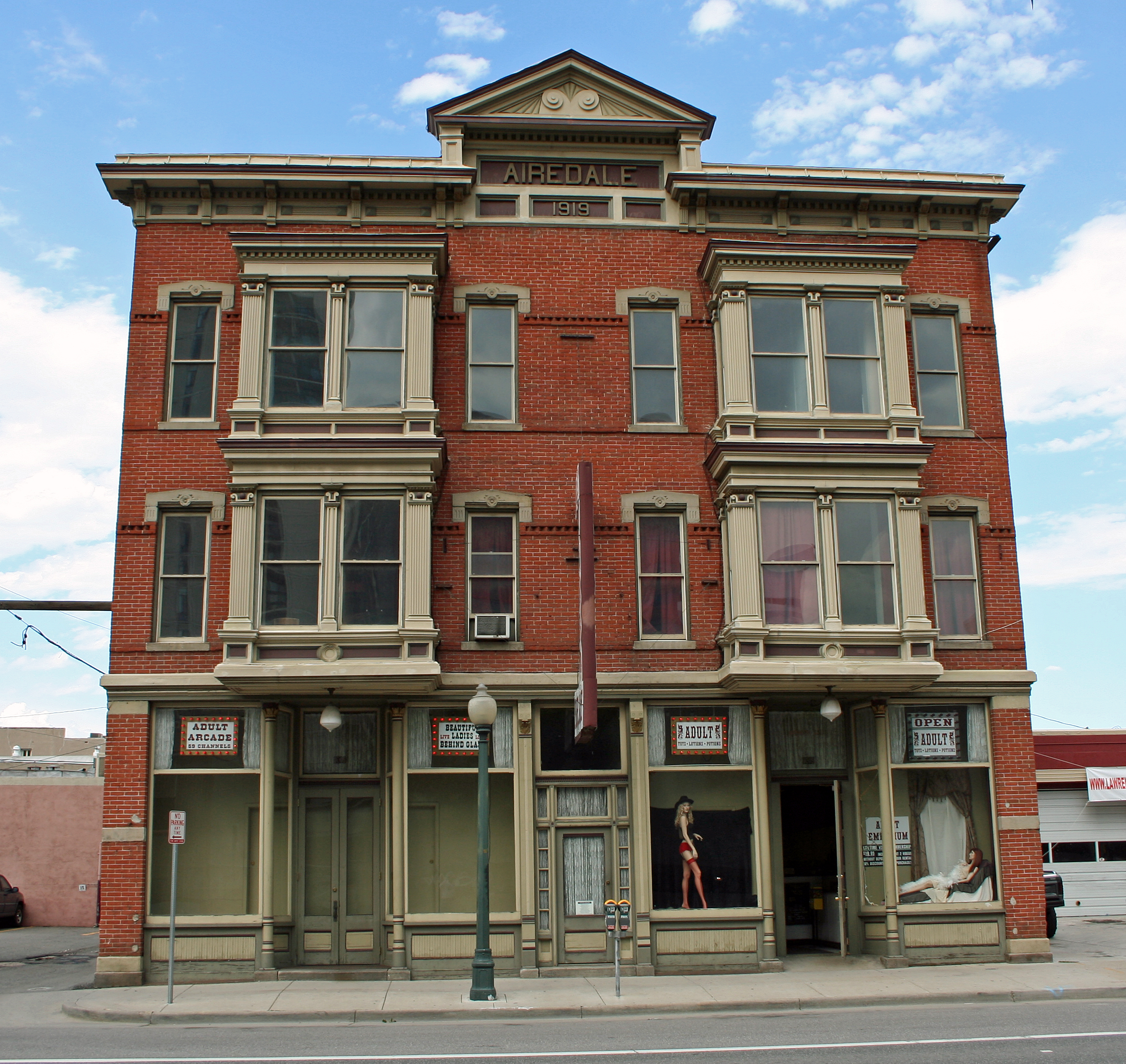 Kopper's Hotel and Saloon Building, located at 1215-1219 20th Street in Denver, Colorado.